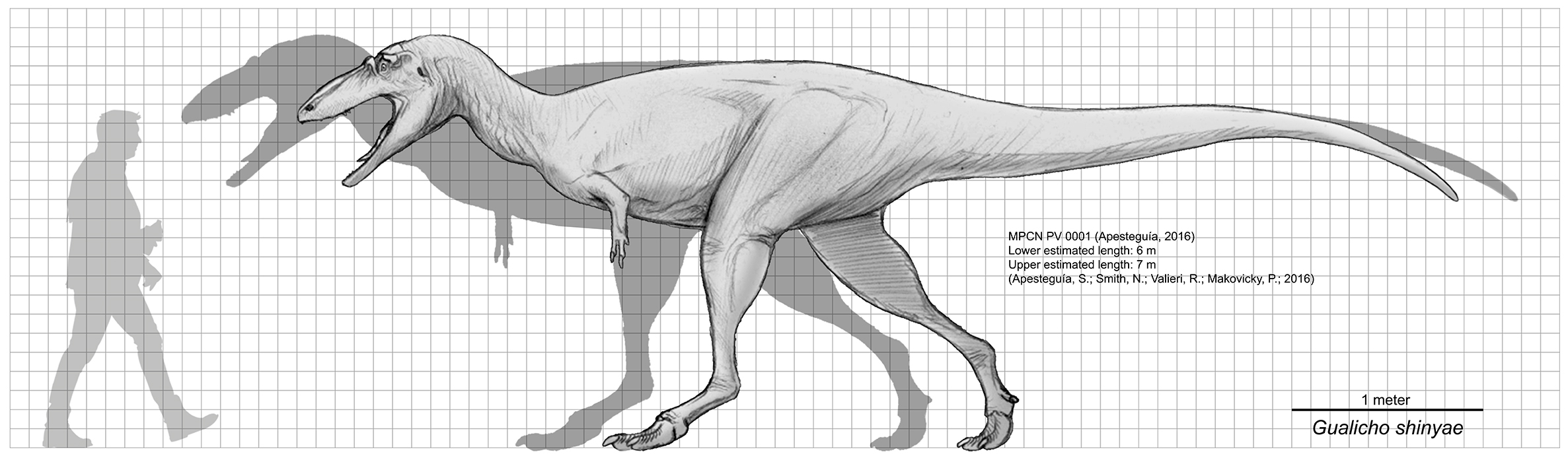 Restoration of Gualicho shinyae based on holotype MPCN PV 0001. Restored using skeletal diagram found in